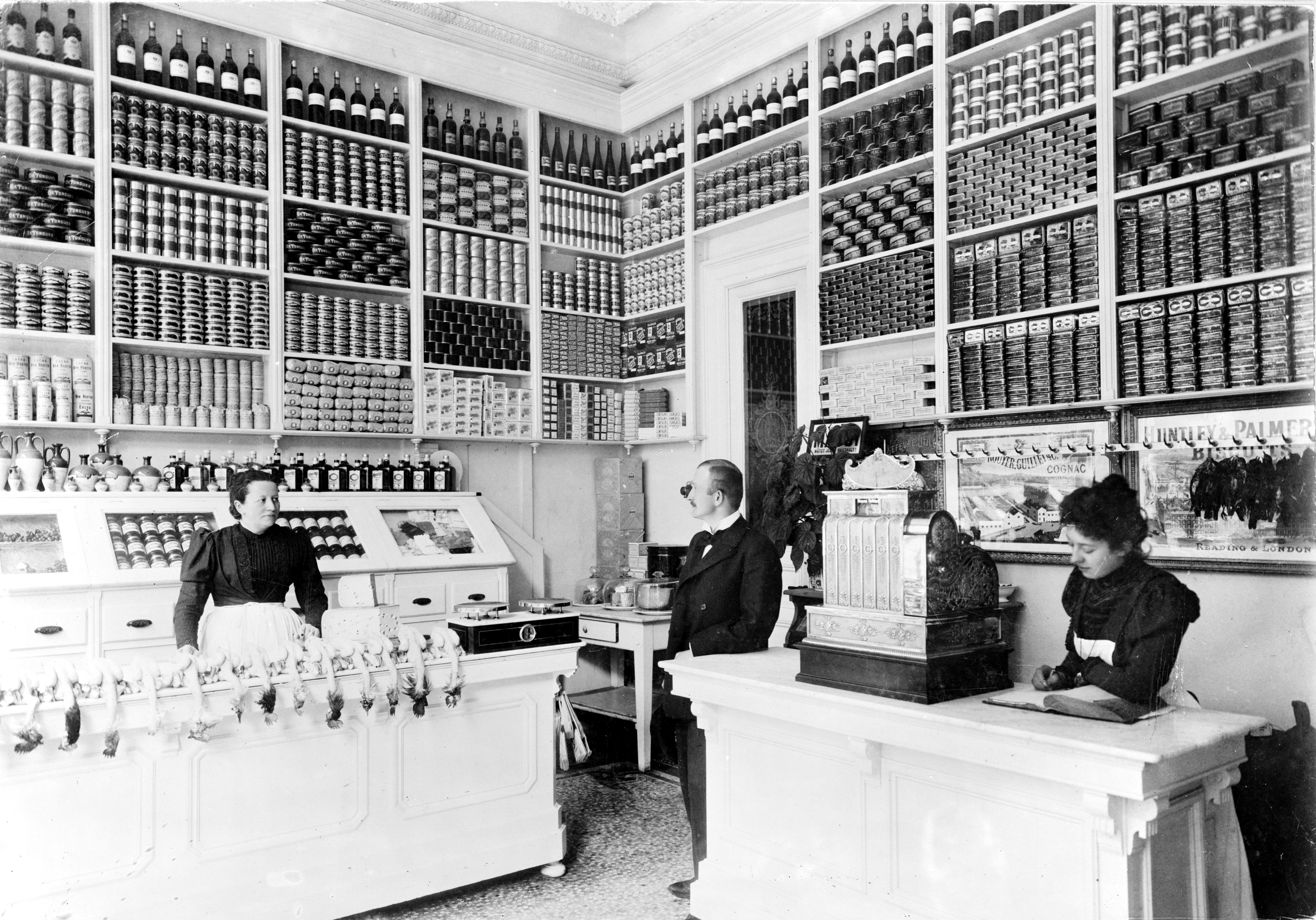 A grocery store in Luxembourg, in 1897.